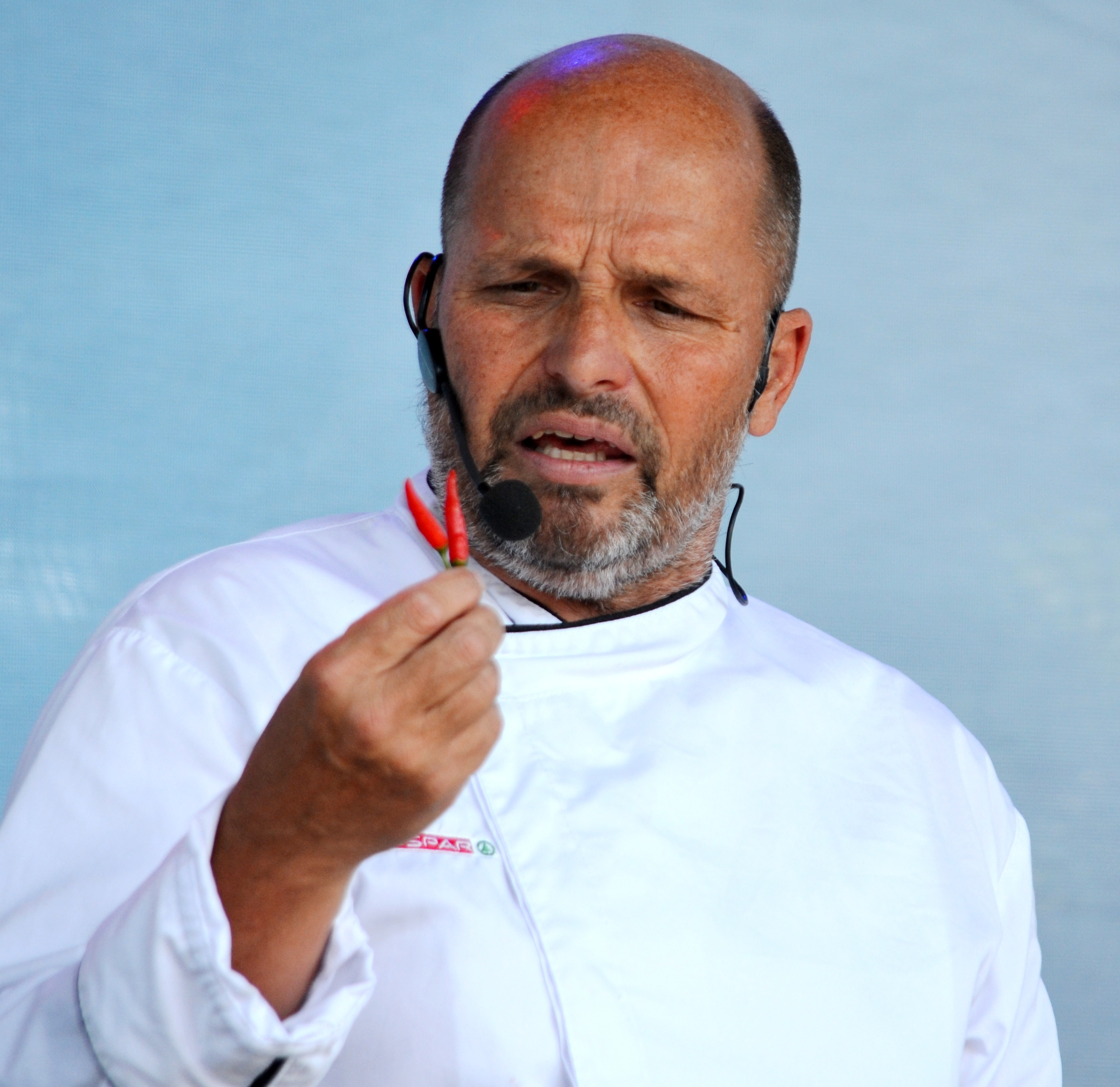 Zdeněk Pohlreich, Czech Chef